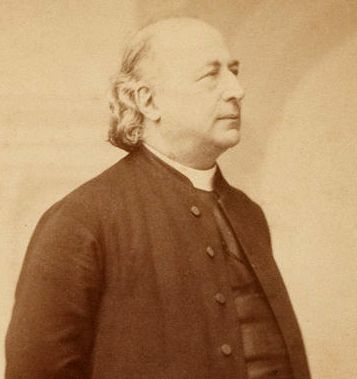 Signed Cabinet Card Portrait of Hyacinthe Loyson